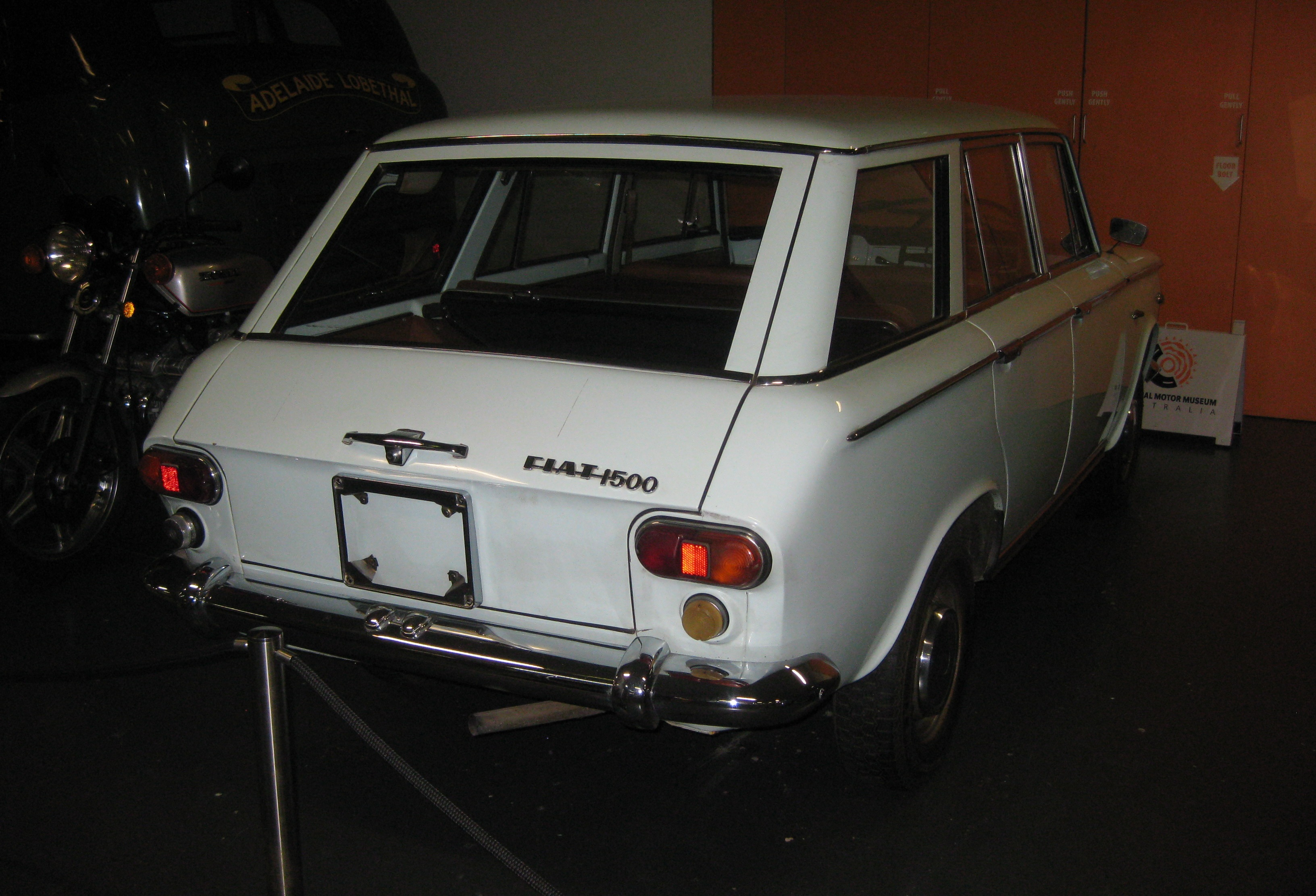 Fiat 1500 Wagon